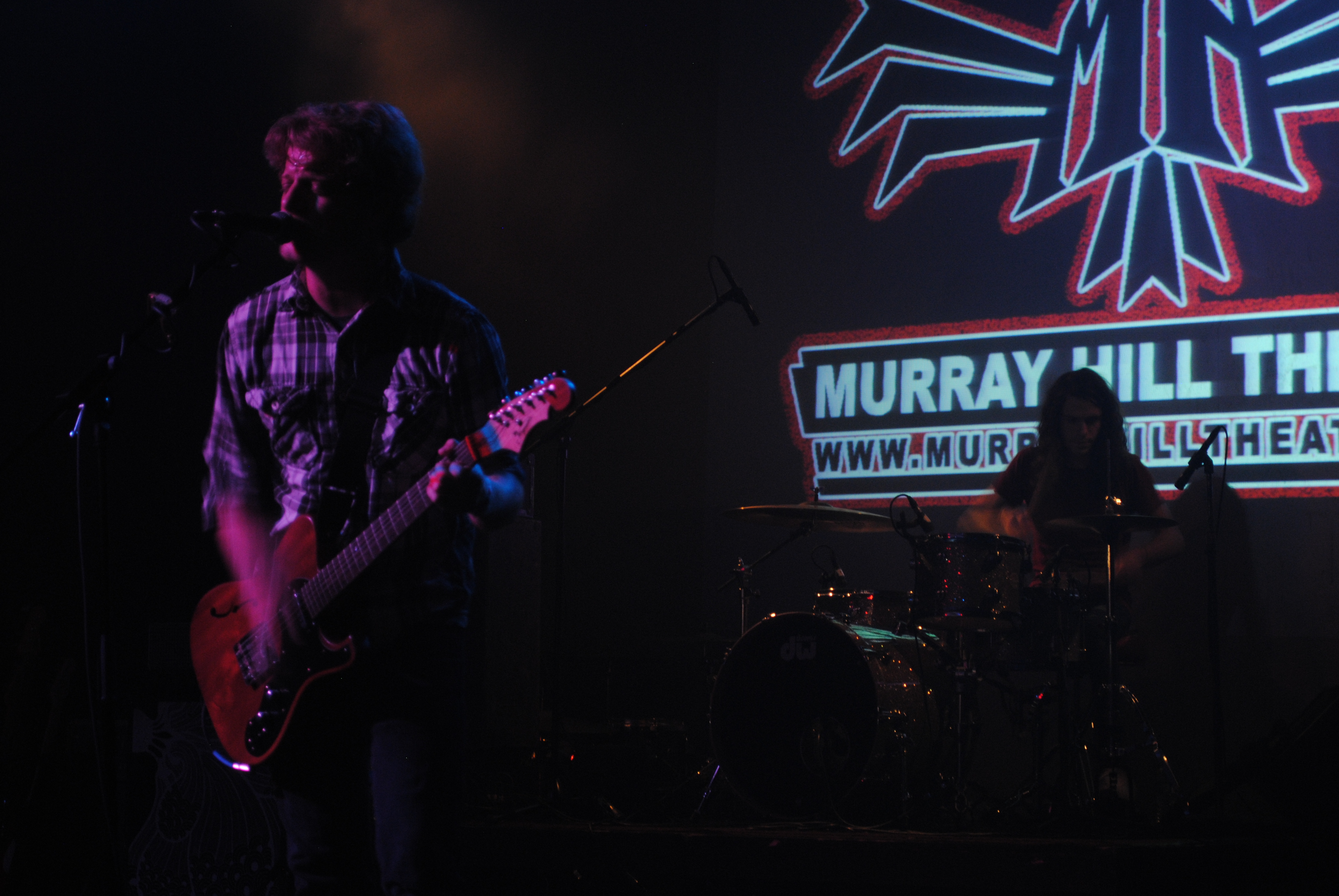 My Epic